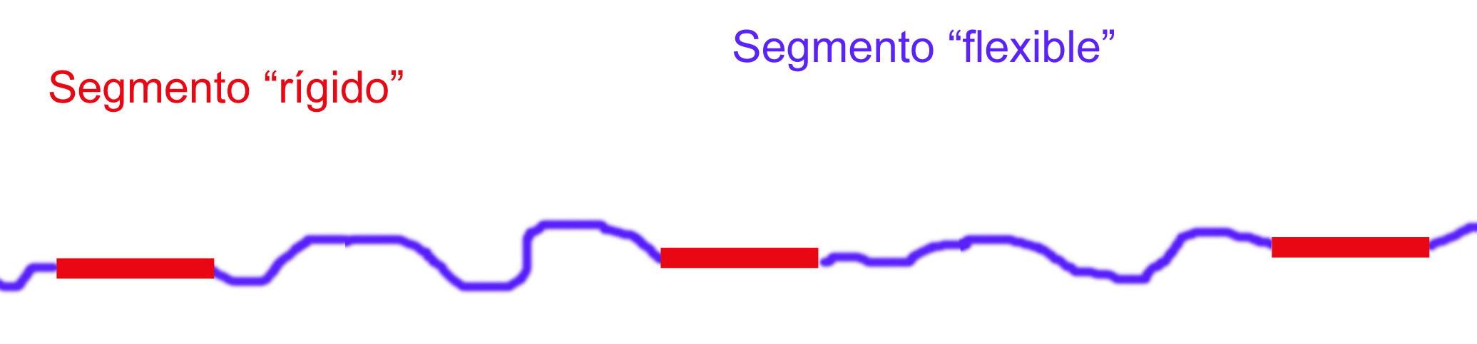 Polyurethanes segments